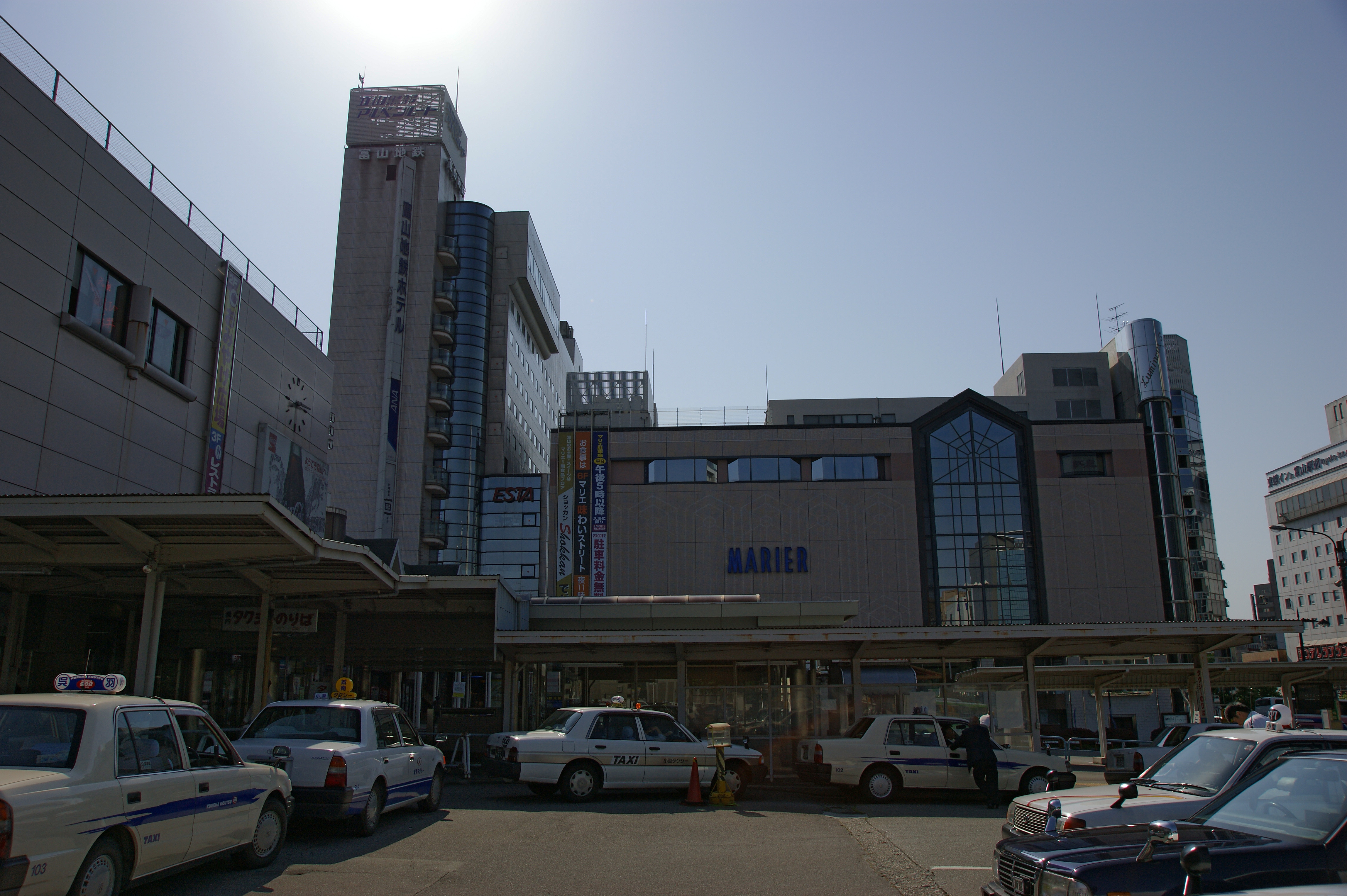 Dentetsu-Toyama Station in Toyama, Toyama prefecture, Japan